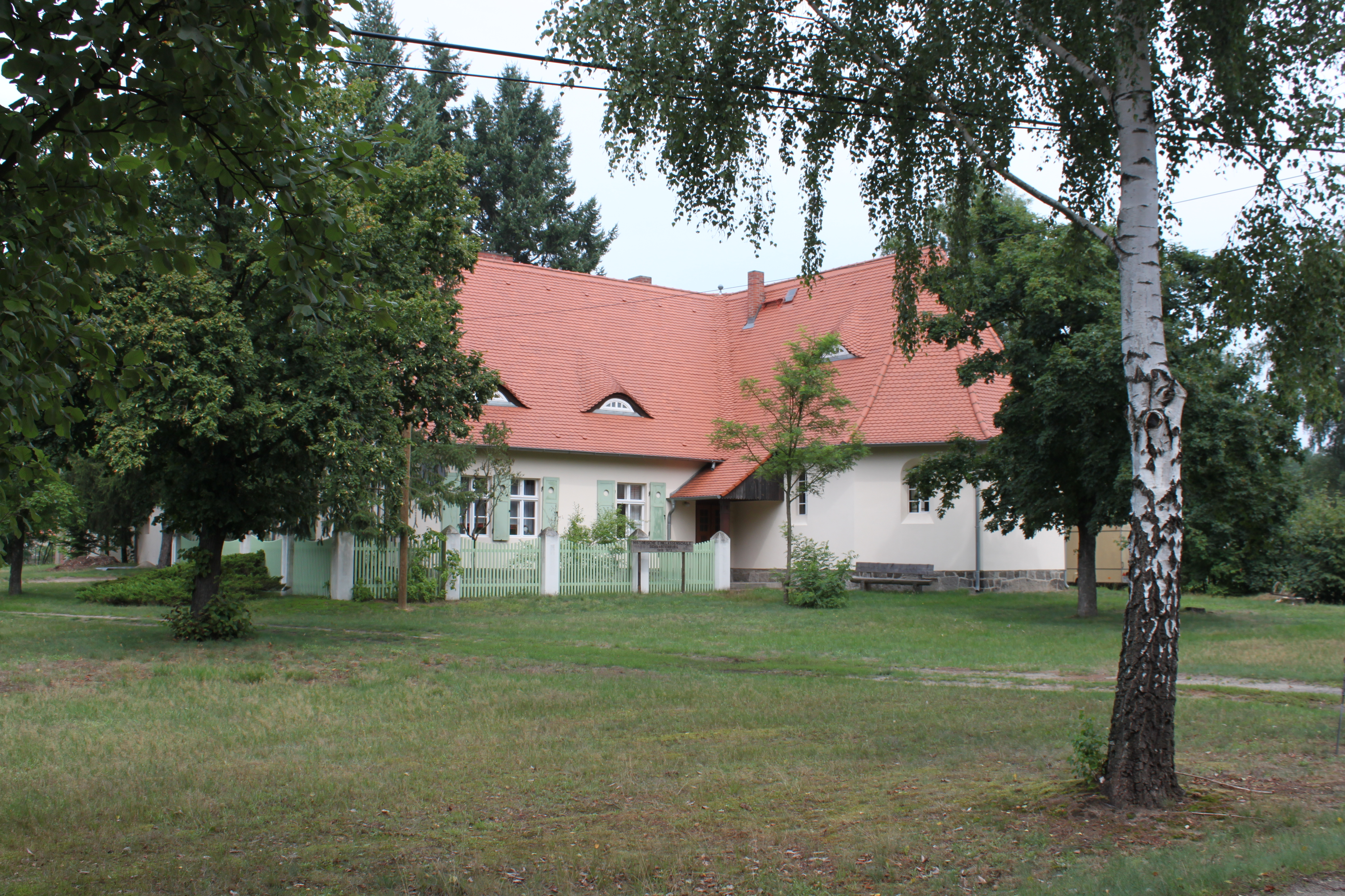 Schwarzenburg (Heideblick)